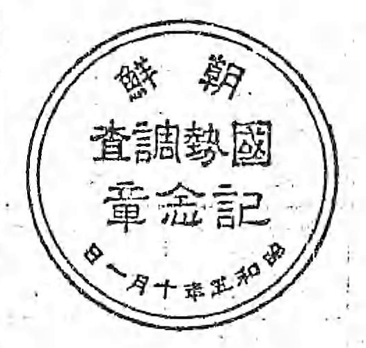 The design of 1930 Korean National Census Medal of Japan established in July 1932 (back).